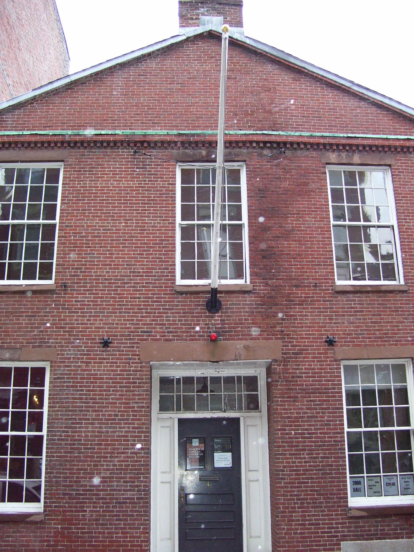 I took this picture on January 27, 2008 and release in to the public domain.